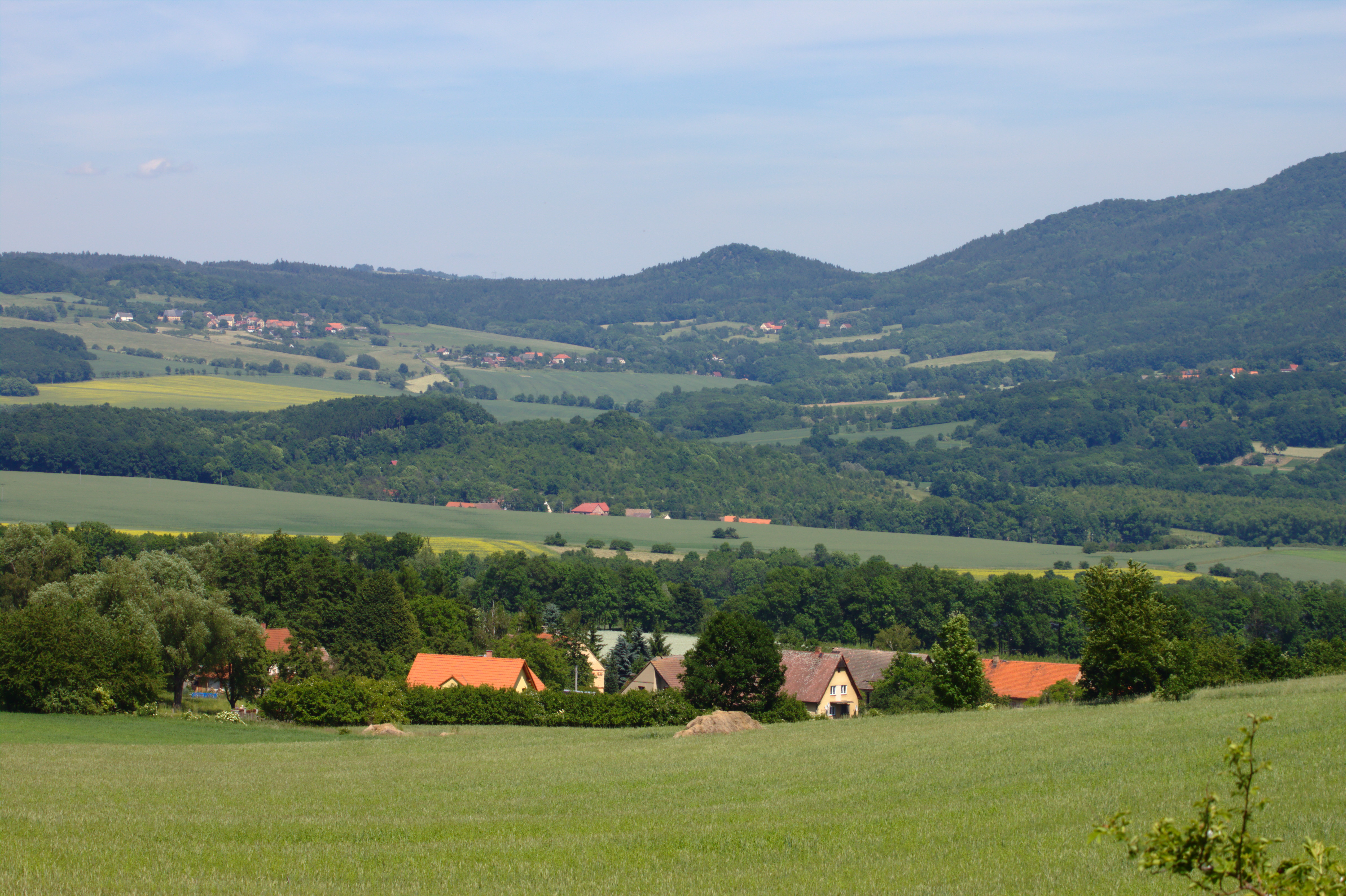 View of Myštice from a nearby road, Ústí Region, CZ